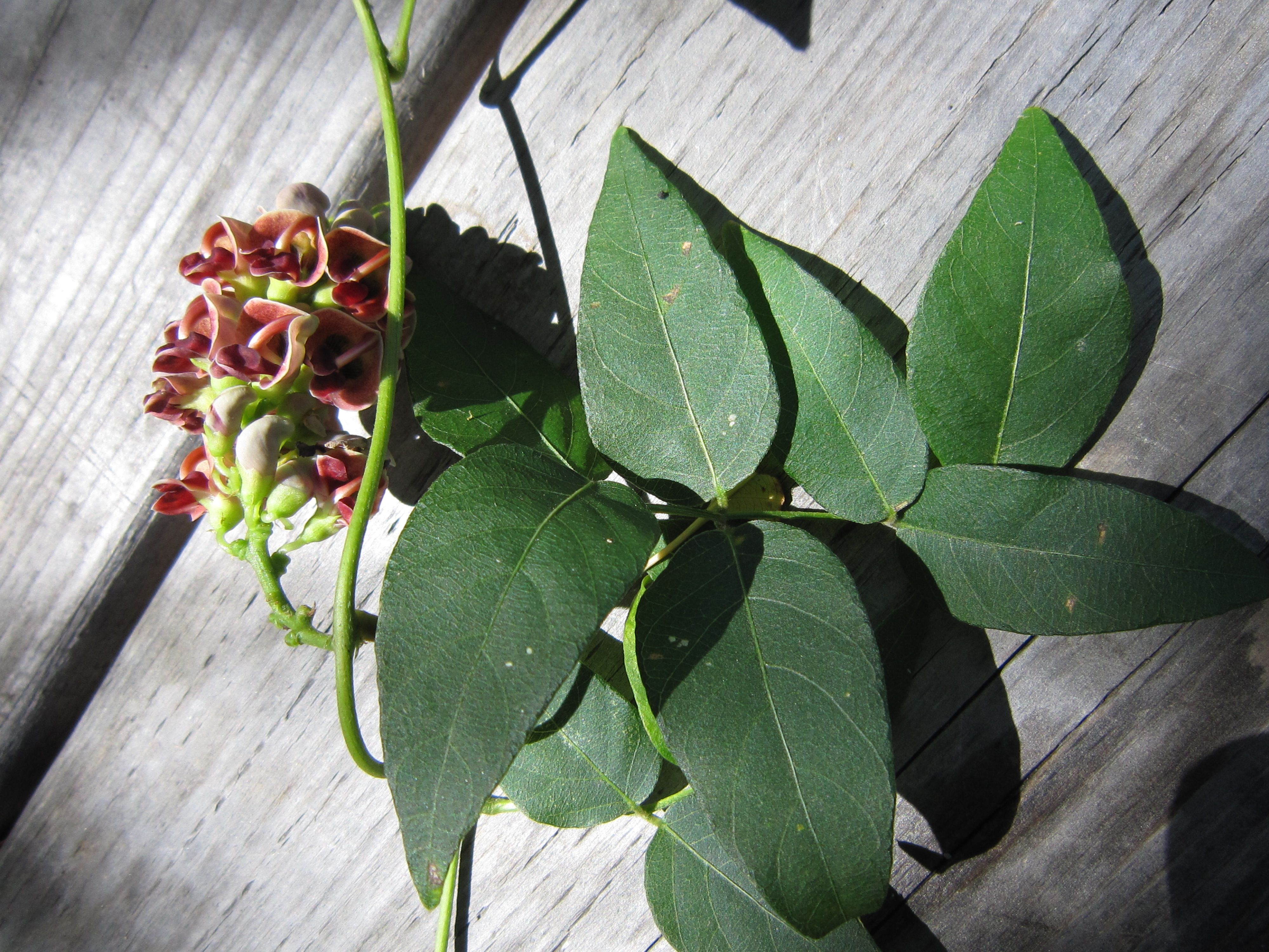 Specimen of Apios americana from Deerfield, western Massachusetts.